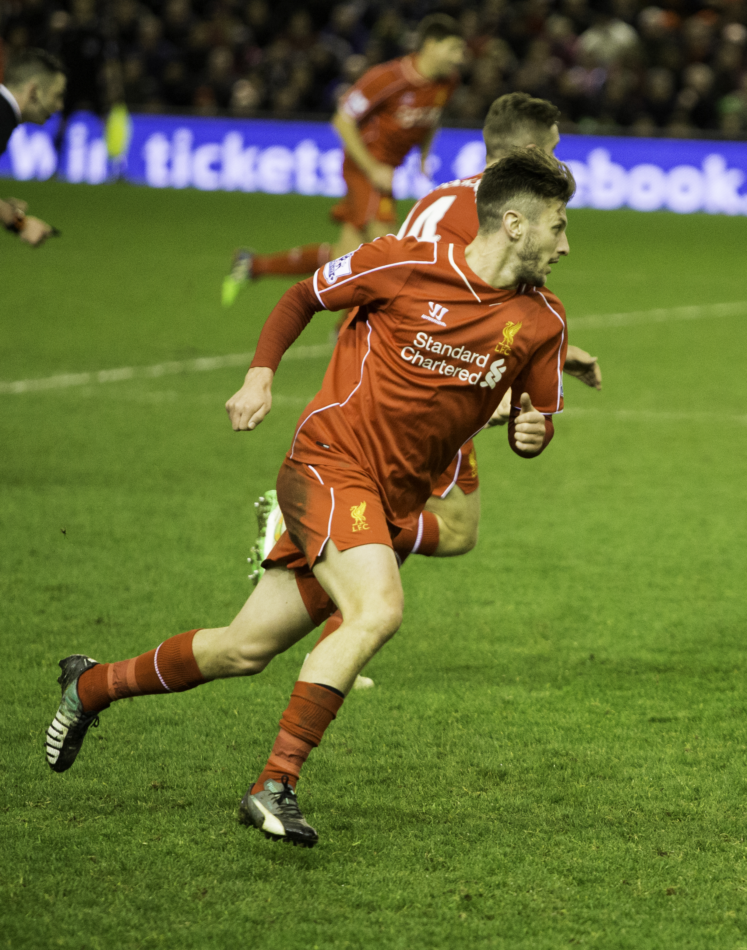 Adam Lallana playing for Liverpool F.C. in a Premier League match against Arsenal at Anfield on 21 December 2014.